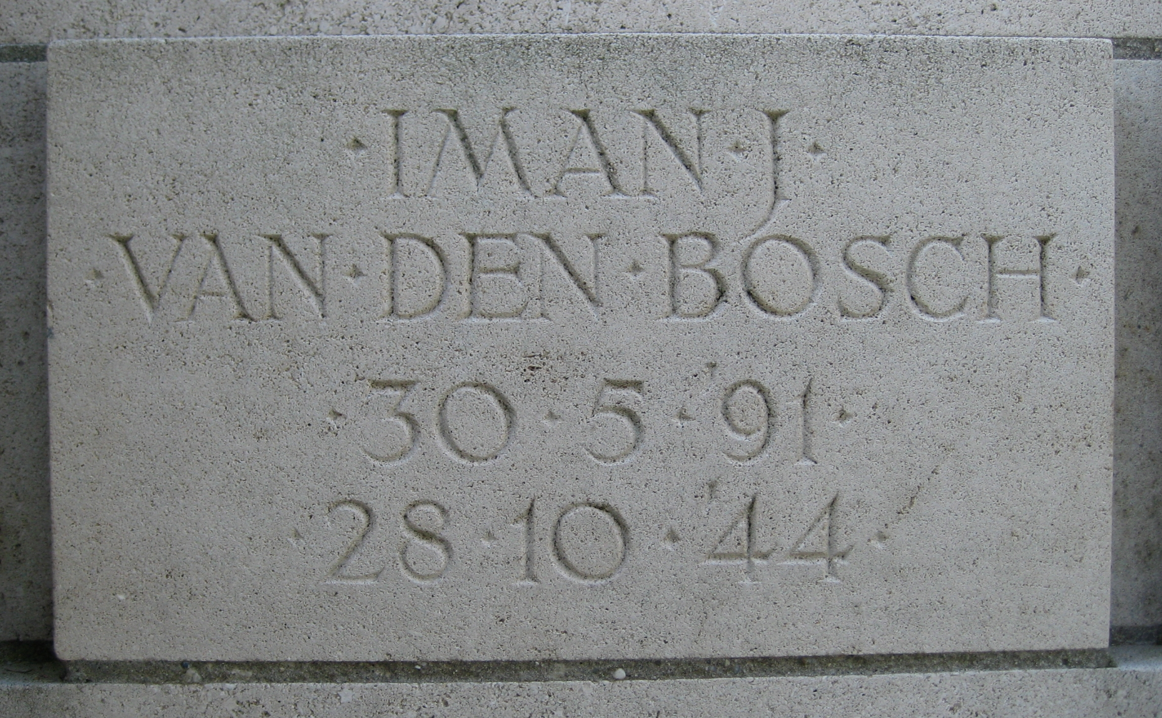 Commemorative plaque for the Dutch WW2 resistance fighter Iman van den Bosch (1891-1944) on the war memorial at the Esserveld cemetery in the Dutch city of Groningen.